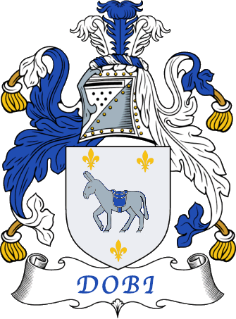 Seal of the Dobi family